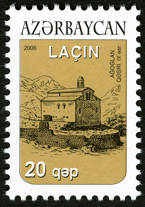 Stamp of Azerbaijan. The stamp pictures the ancient fortress (Ag oglan gasri) erected in IX cent. in Lachin town.